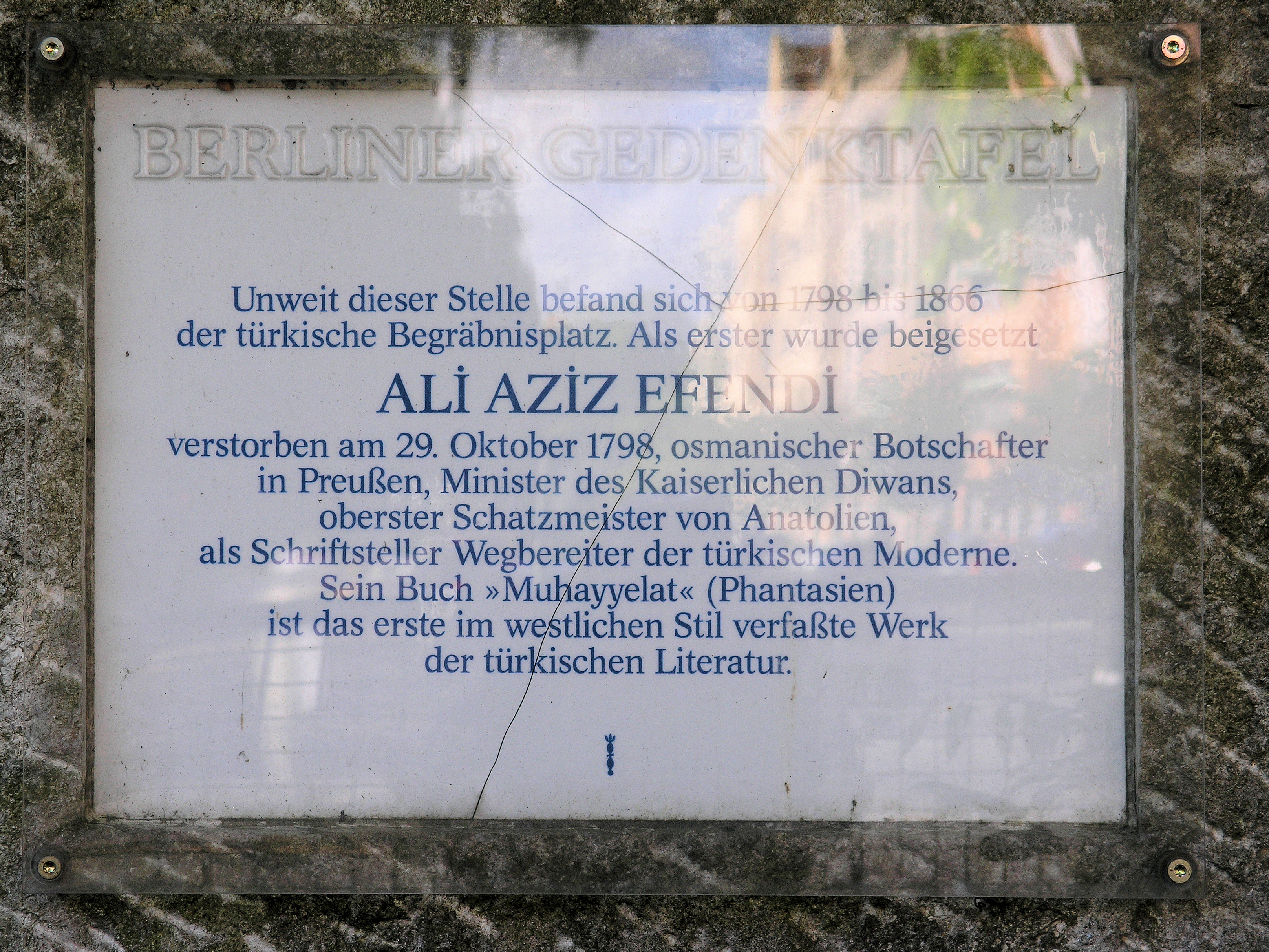 Berlin memorial plaque, Ali Aziz Efendi, Urbanstraße 15, Berlin-Kreuzberg, Germany